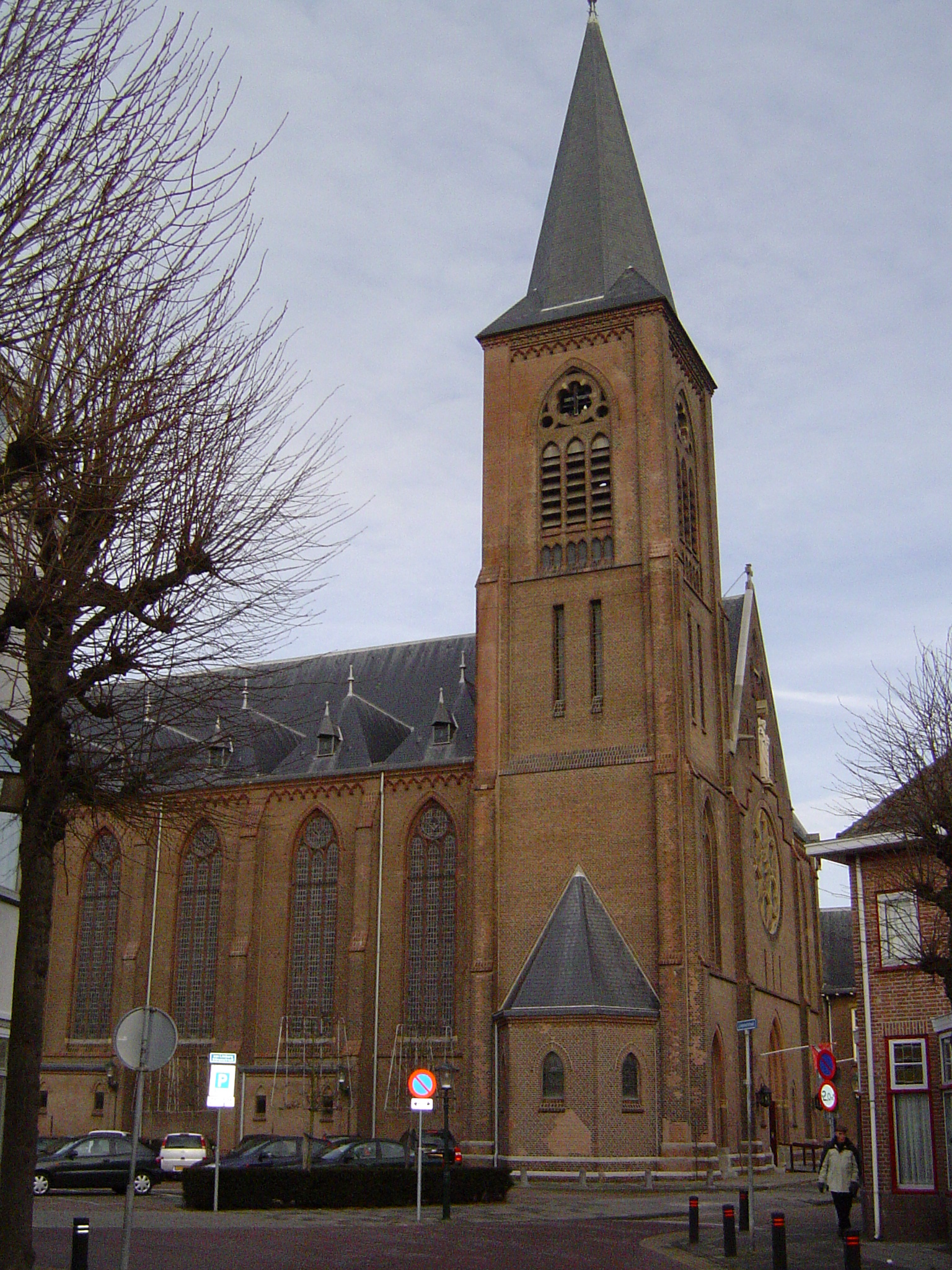 St Jeroenskerk - Noordwijk, The Netherlands